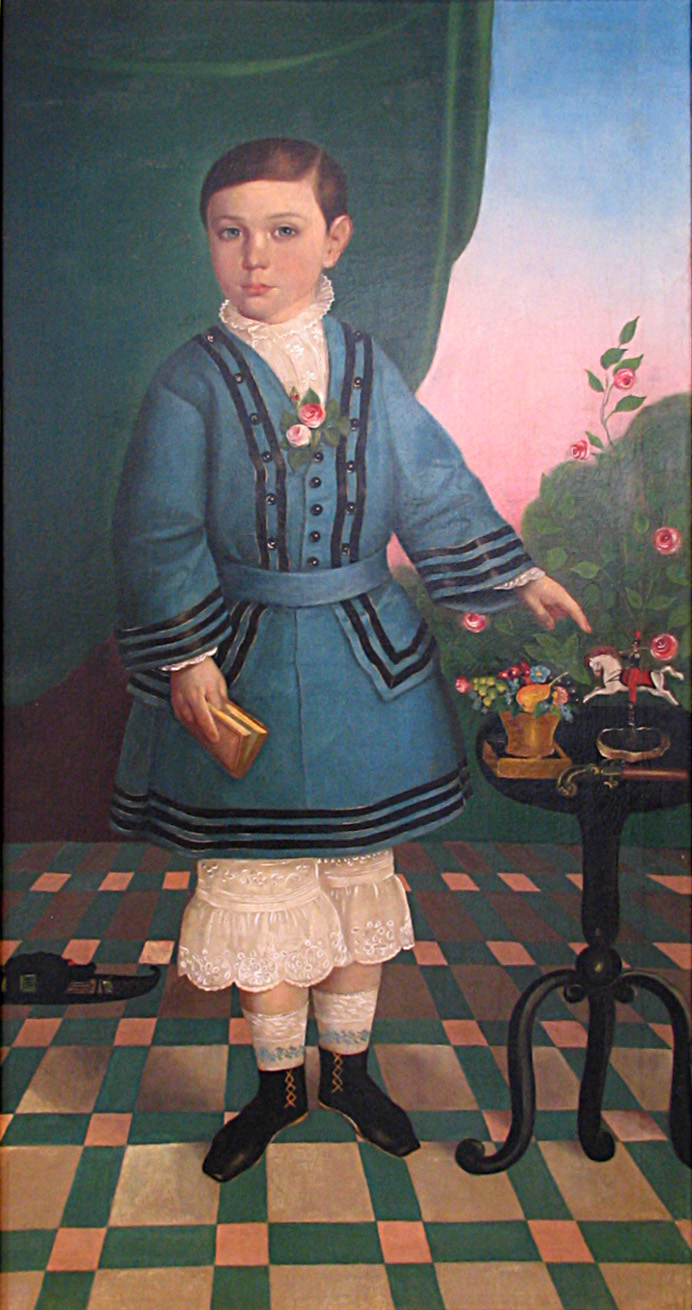 Uroš Knežević, Portrait of Marko Leko as Boy, 1856, National Museum of Serbia